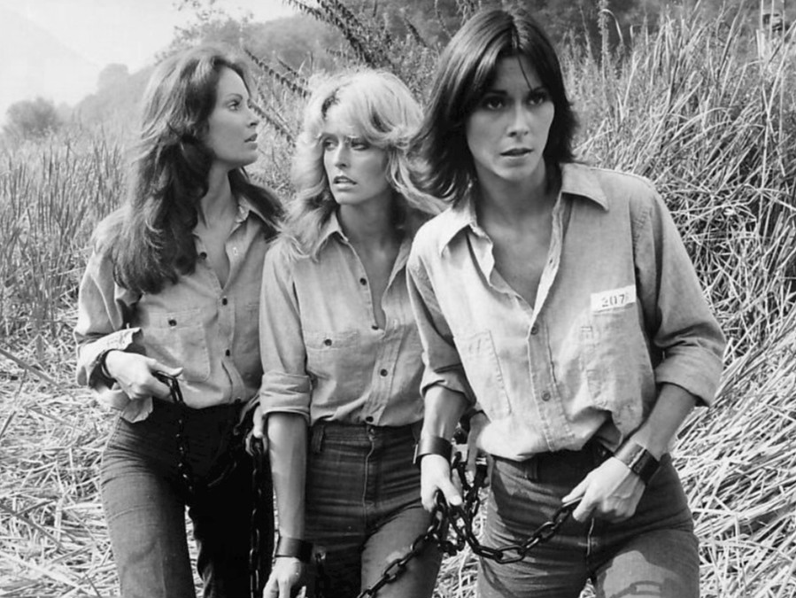 Photo of the original cast of the television series Charlie's Angels. From left:Jacklyn Smith, Farrah Fawcett, Kate Jackson.